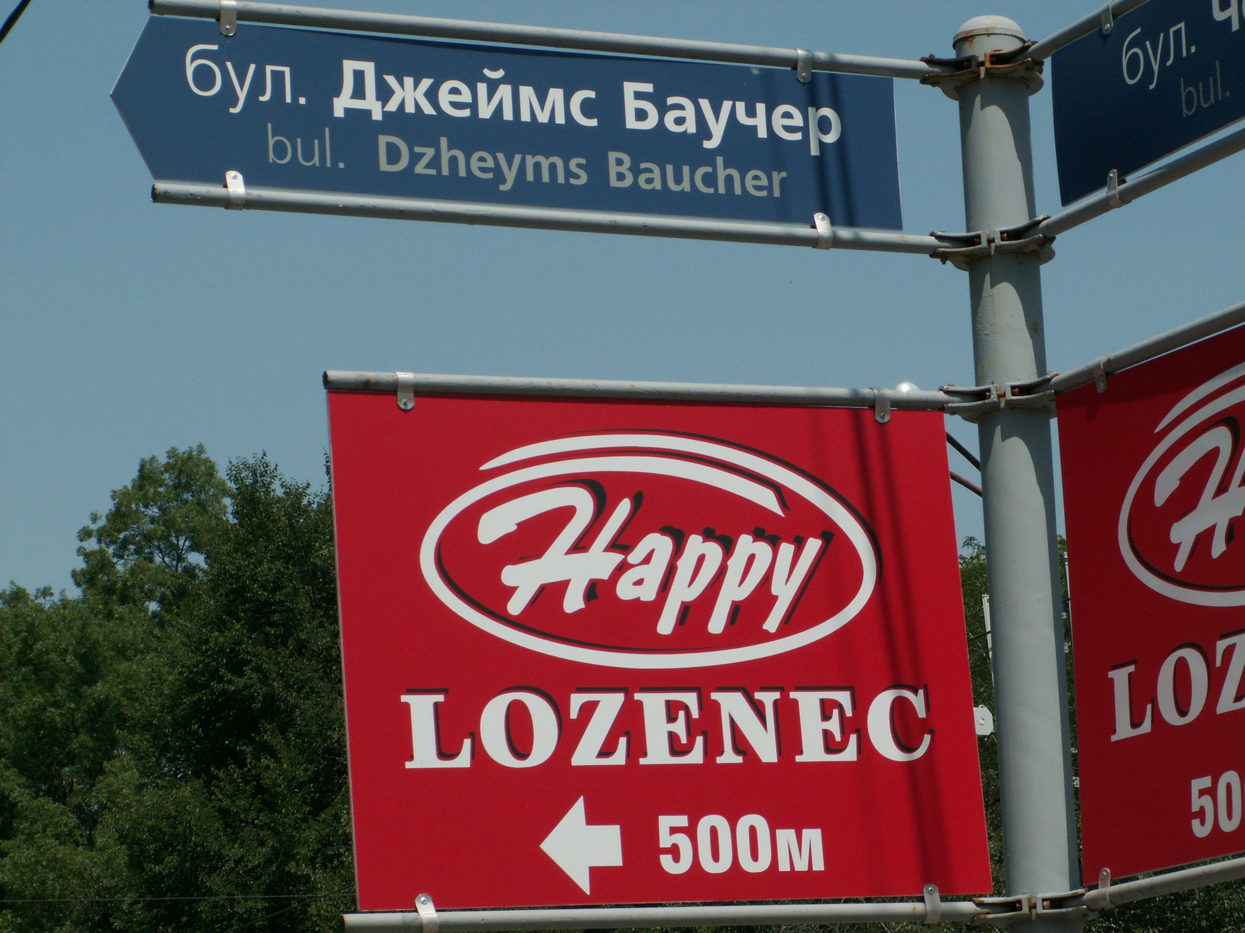 Signposts with transliterations in Sofia